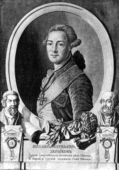 Mikhail Matveyevich Kheraskov (1733-1807)